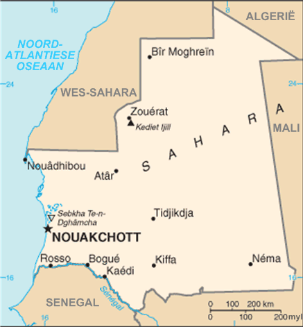 An Afrikaans map of Mauritania.